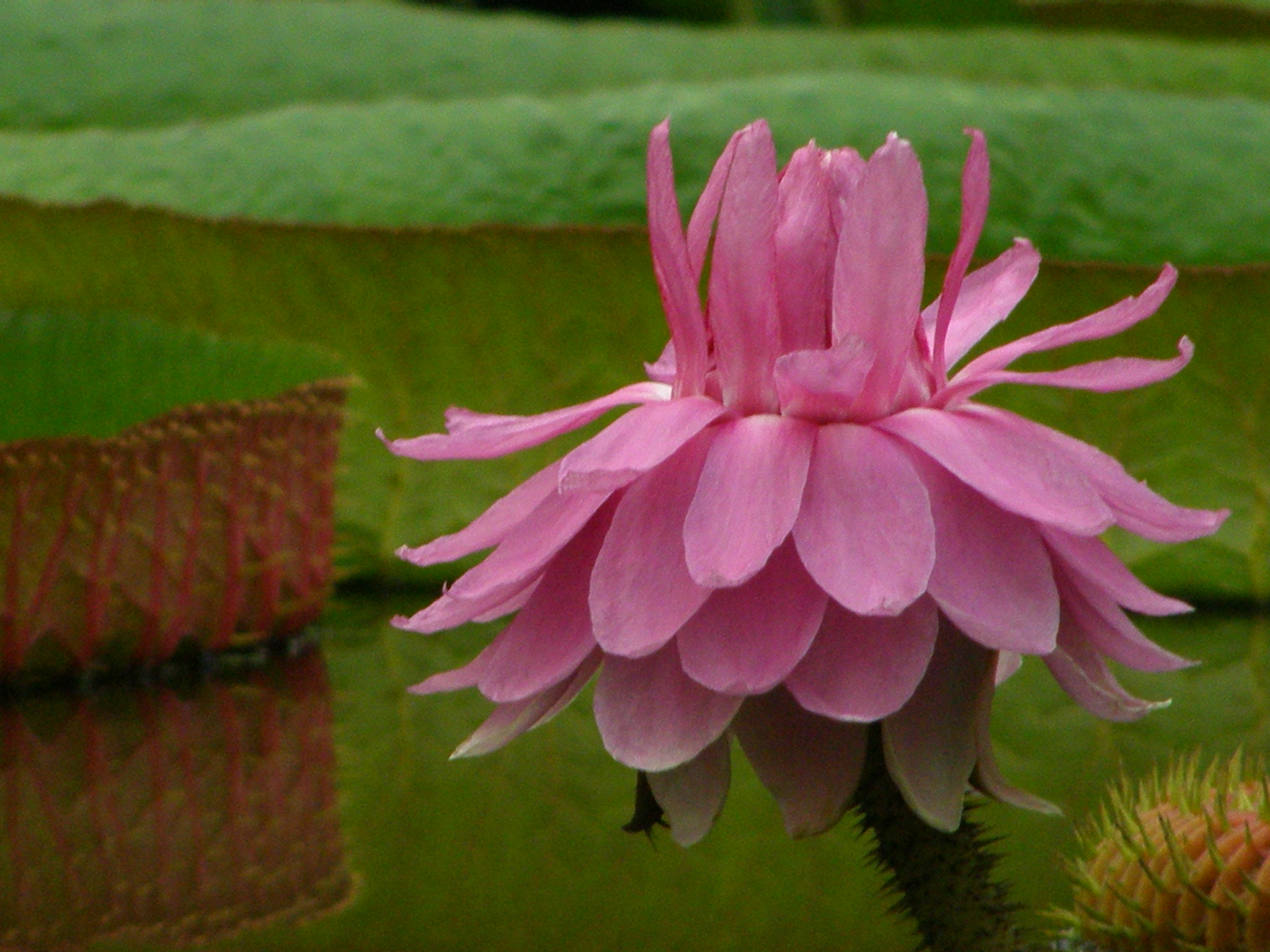 Victoria amazonica flower headvictoria